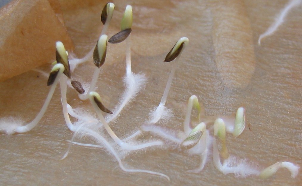 The germination of Lactuca sativa seeds. Dark colored ones on the left are Crisphead Lettuce seeds, and bright colored ones are Butterhead Lettuce seeds.